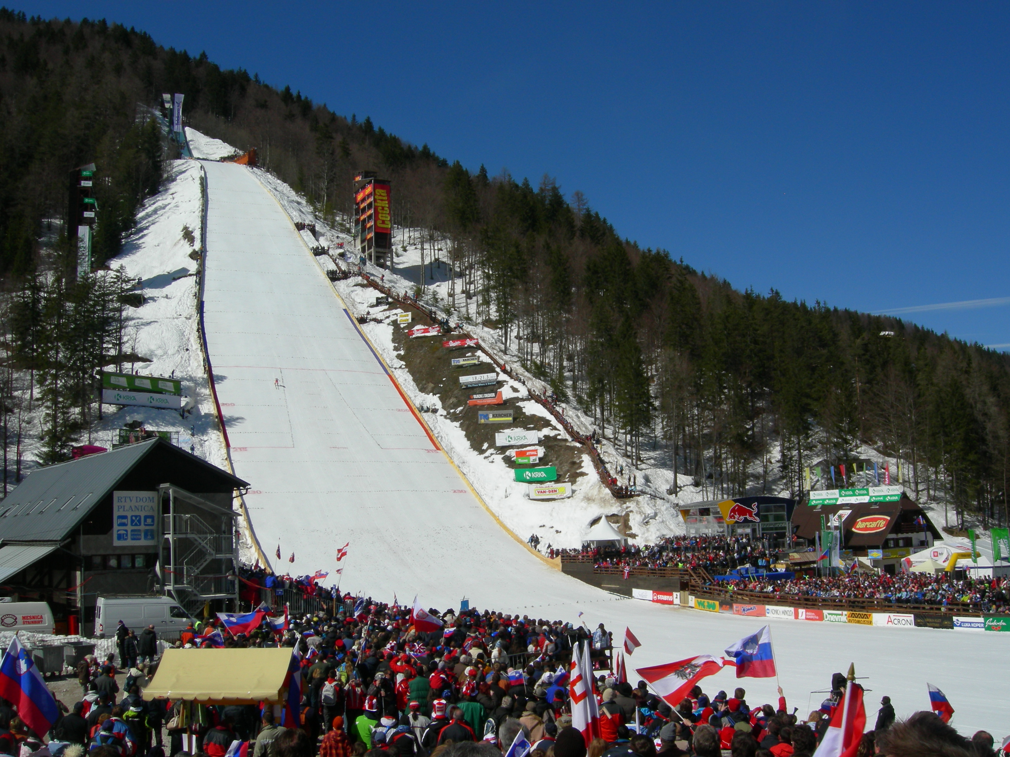 FIS World Cup Ski Jumping Final (22.3.2009), Planica, Slovenia